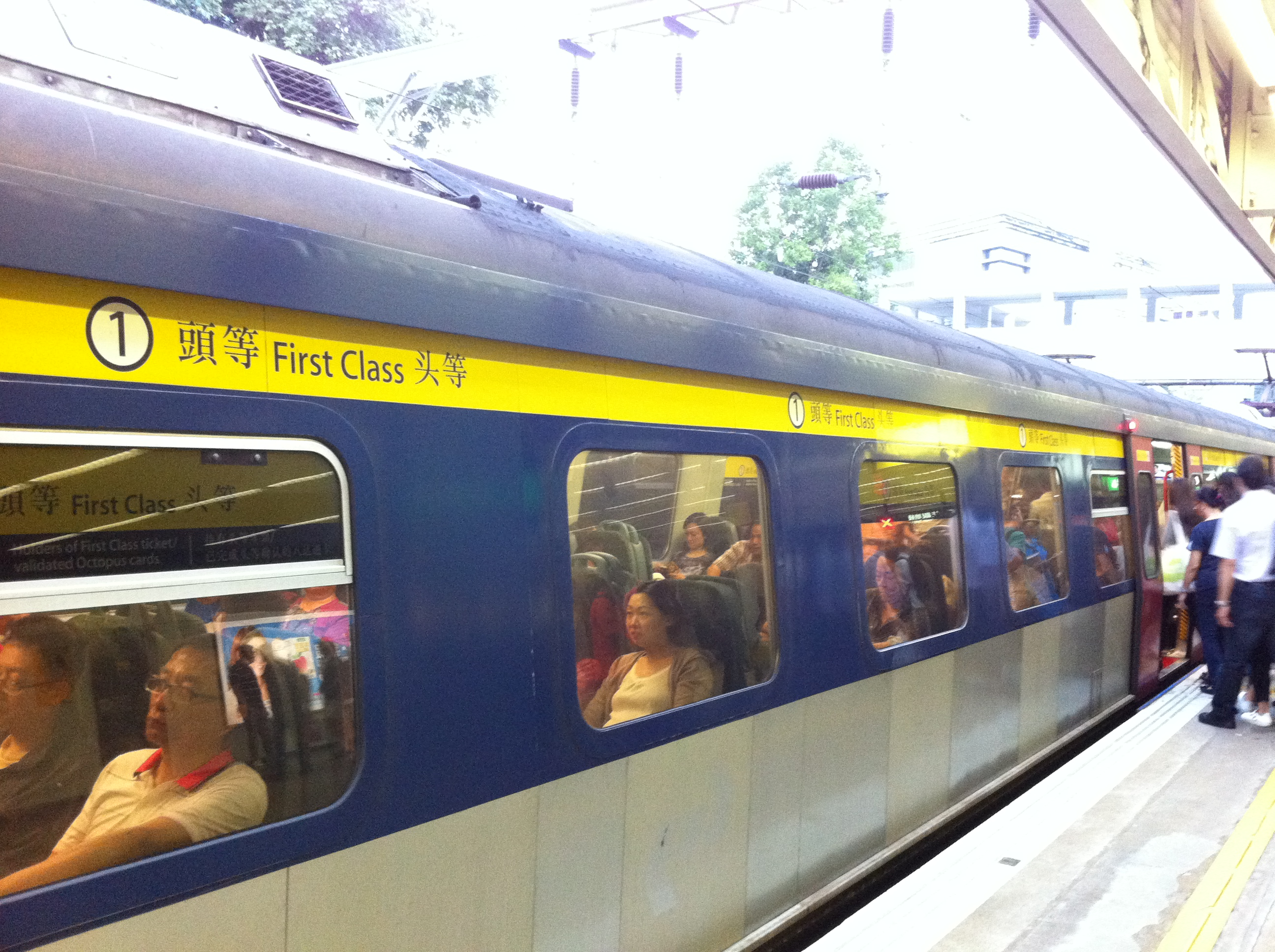 East Rail Line, 九龍塘站 (香港), Kowloon Tong, Hong Kong